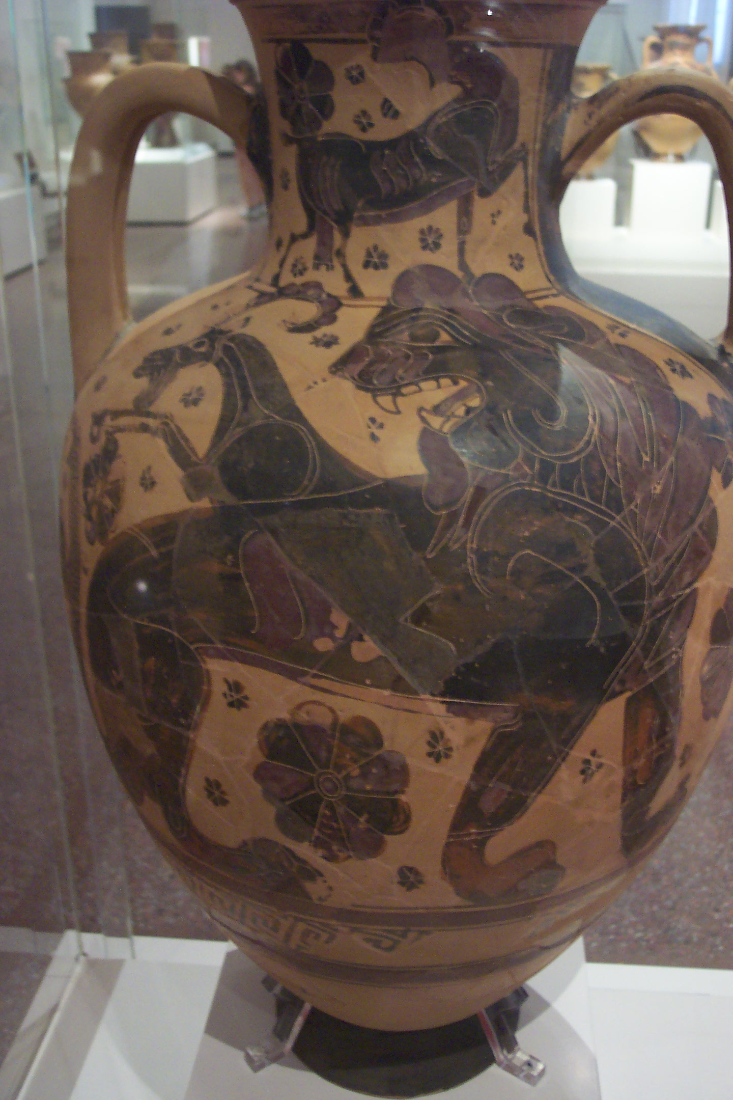 Chimera on vase at Athens Archelogical Museum